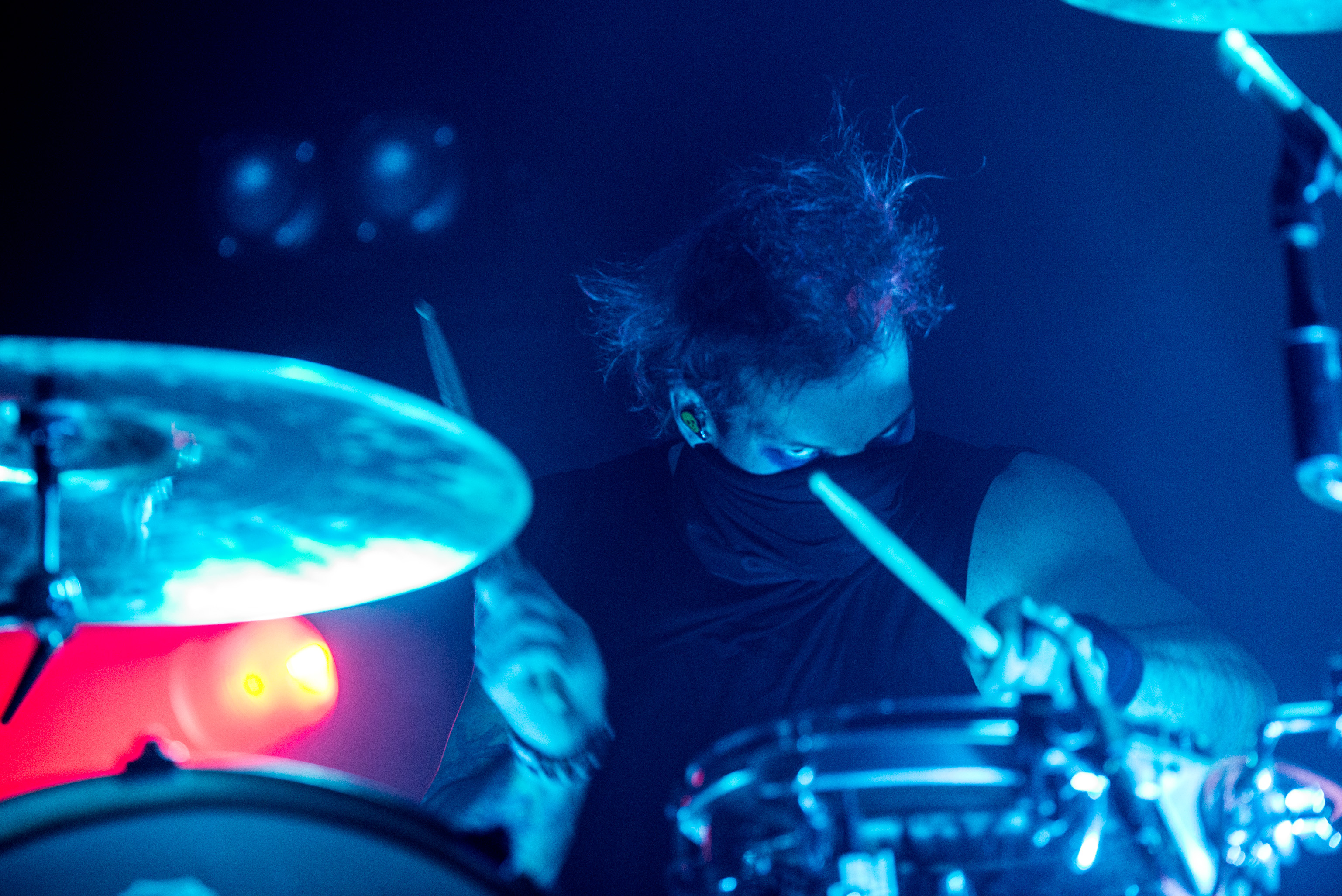 Twenty One Pilots Live @ Munich 2016